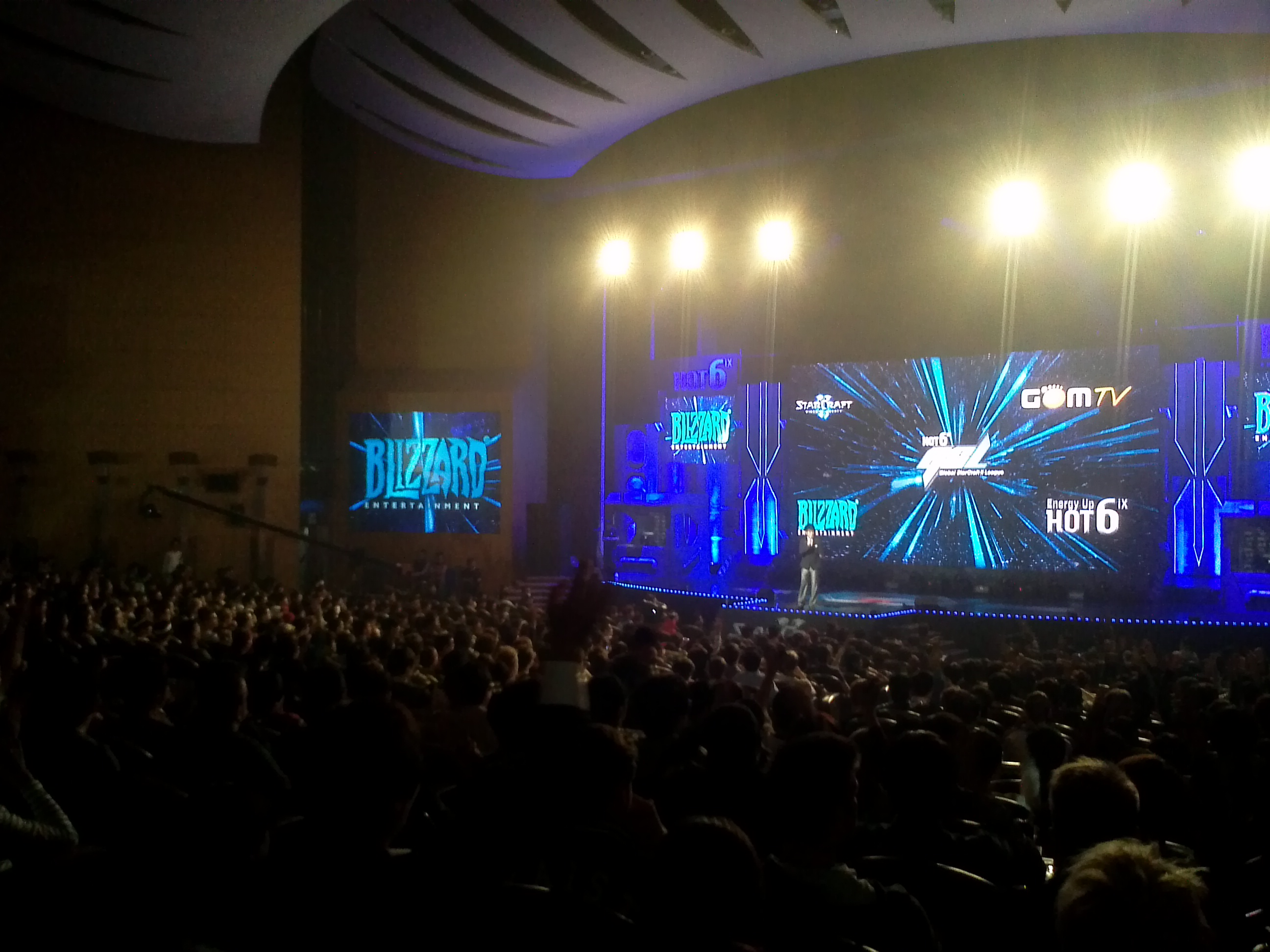 GSL Season 4 Grand Final. COEX Auditorium